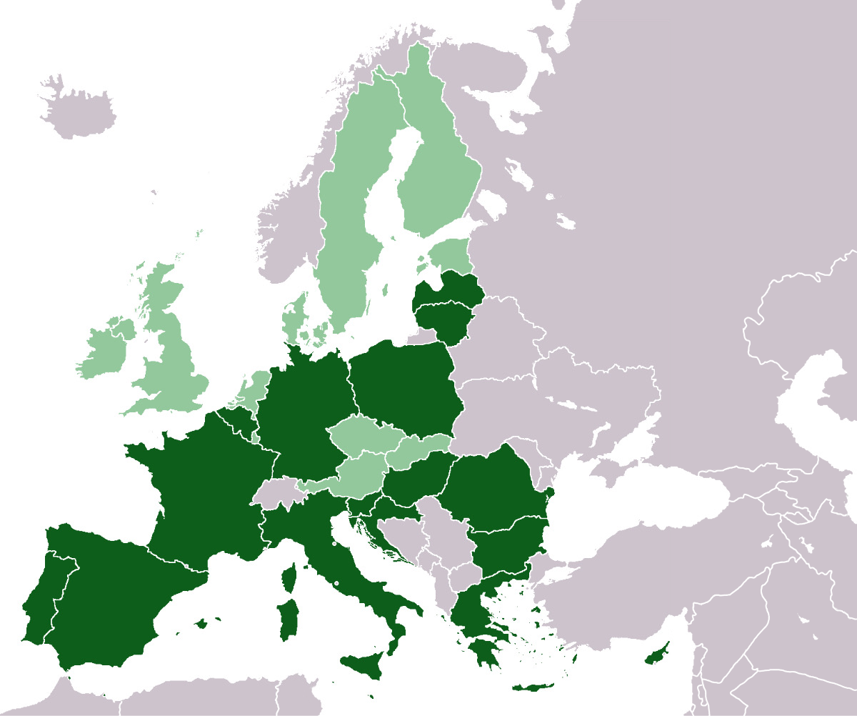 The EU members with more "federalists" than "anti-federalists" according to polls (Eurobarometer, Spring 2014, p.151). In the dark green countries more people are agree with the idea that "the EU should develop further into a federation of Nation-States” than disagree.